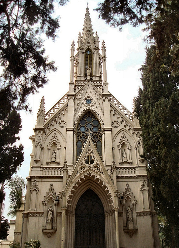 Capilla Jackson, Aires Puros, Montevideo, Uruguay.